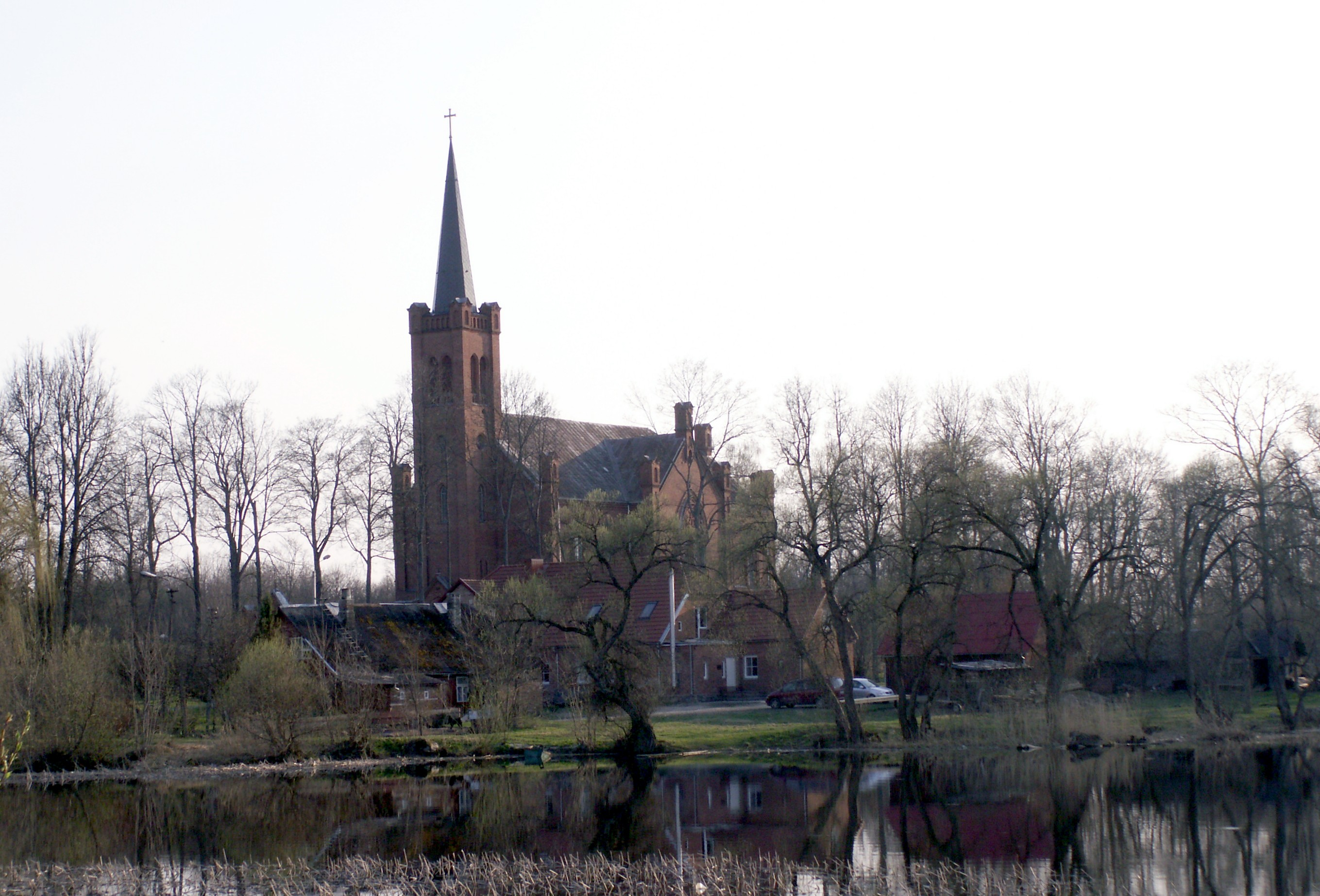 Biržai Reformed church from Apaščia, Biržai district, LithuaniaLietuvių: Biržų reformatų bažnyčia nuo Apaščios, Biržų rajonas, Lietuva